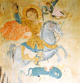 Flag of Souliot warlord Tousias Botsaris (1750-1792). First side - Saint George